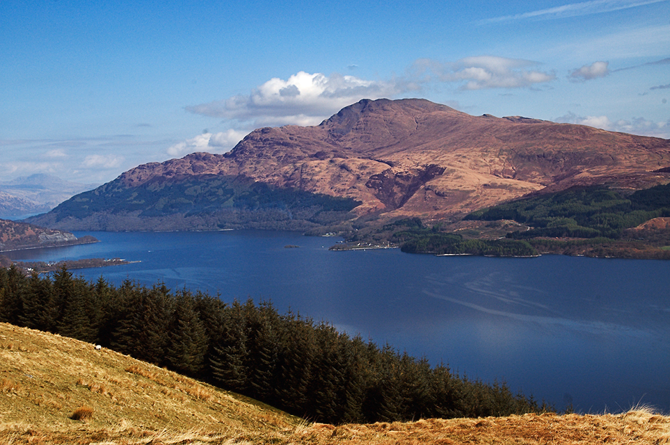 The Ben taken from Beinn Dubh.